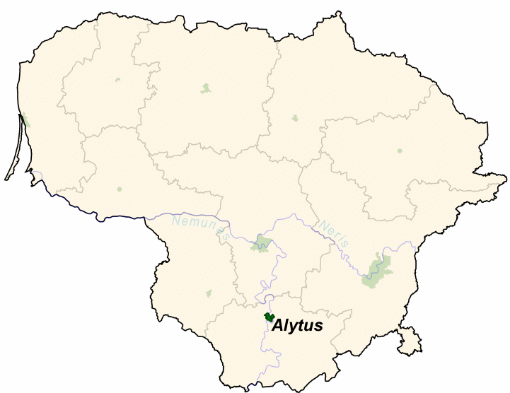 Alytus on the map of Lithuania